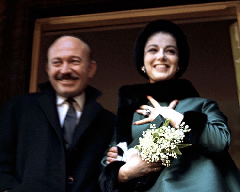 The Italian pianist Armando Trovajoli, arm in arm with the Italian actress Anna Maria Pierangeli, is smiling while going out from Kensington Register Office on their wedding day. London (Great Britain), February 14, 1962.